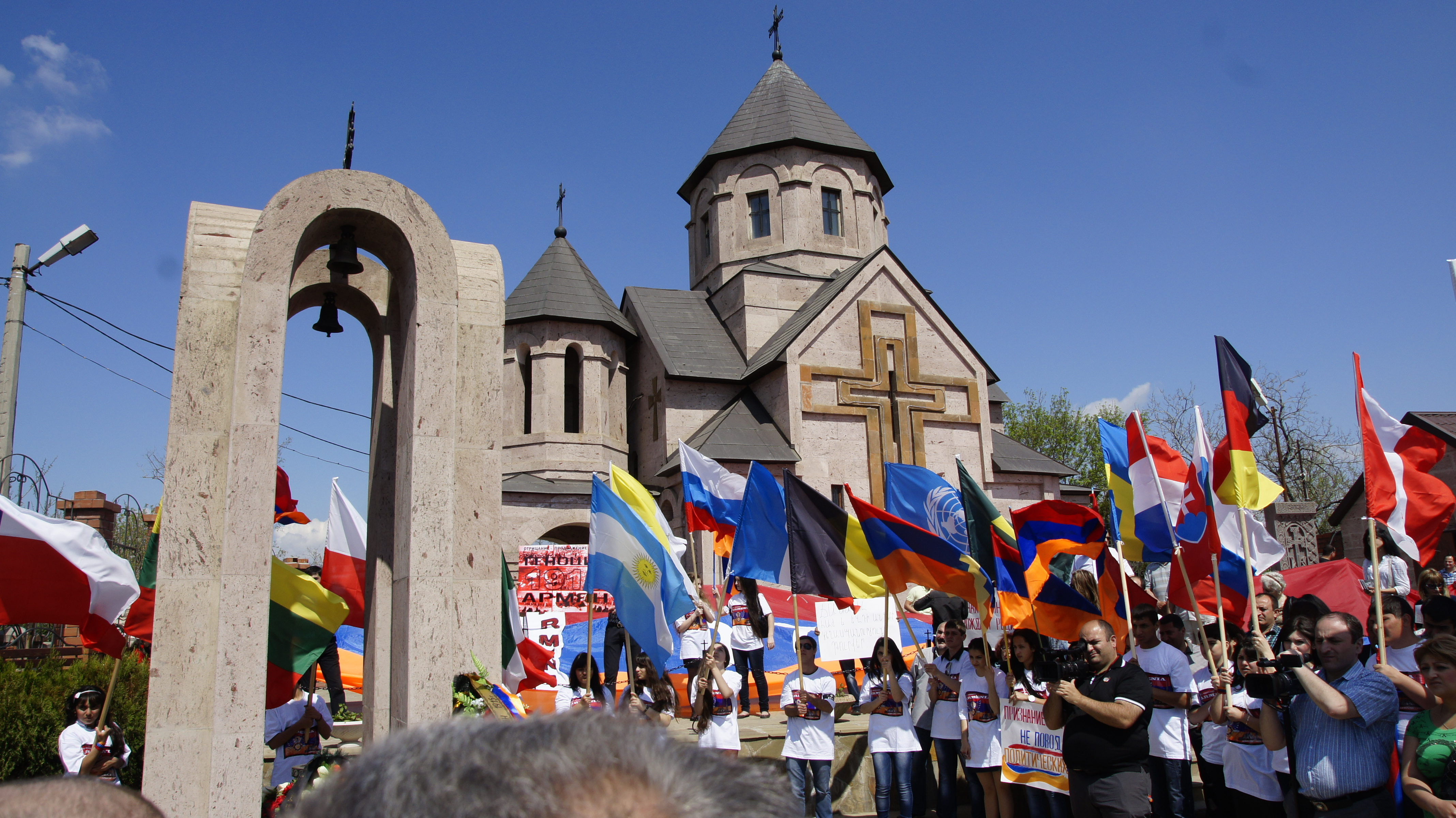 Genocide meeting 24.03.2012 in armenian church Sourb Gevorg